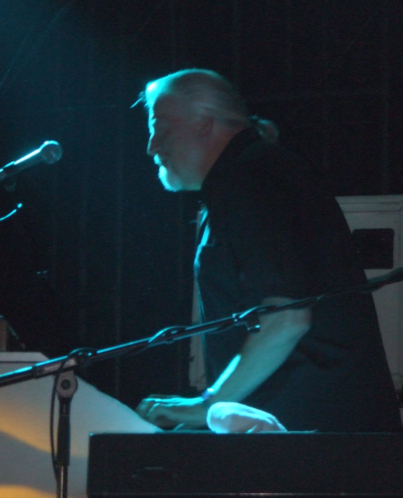 cropped version of Jon Lord in black shirt, played keyboard instrument